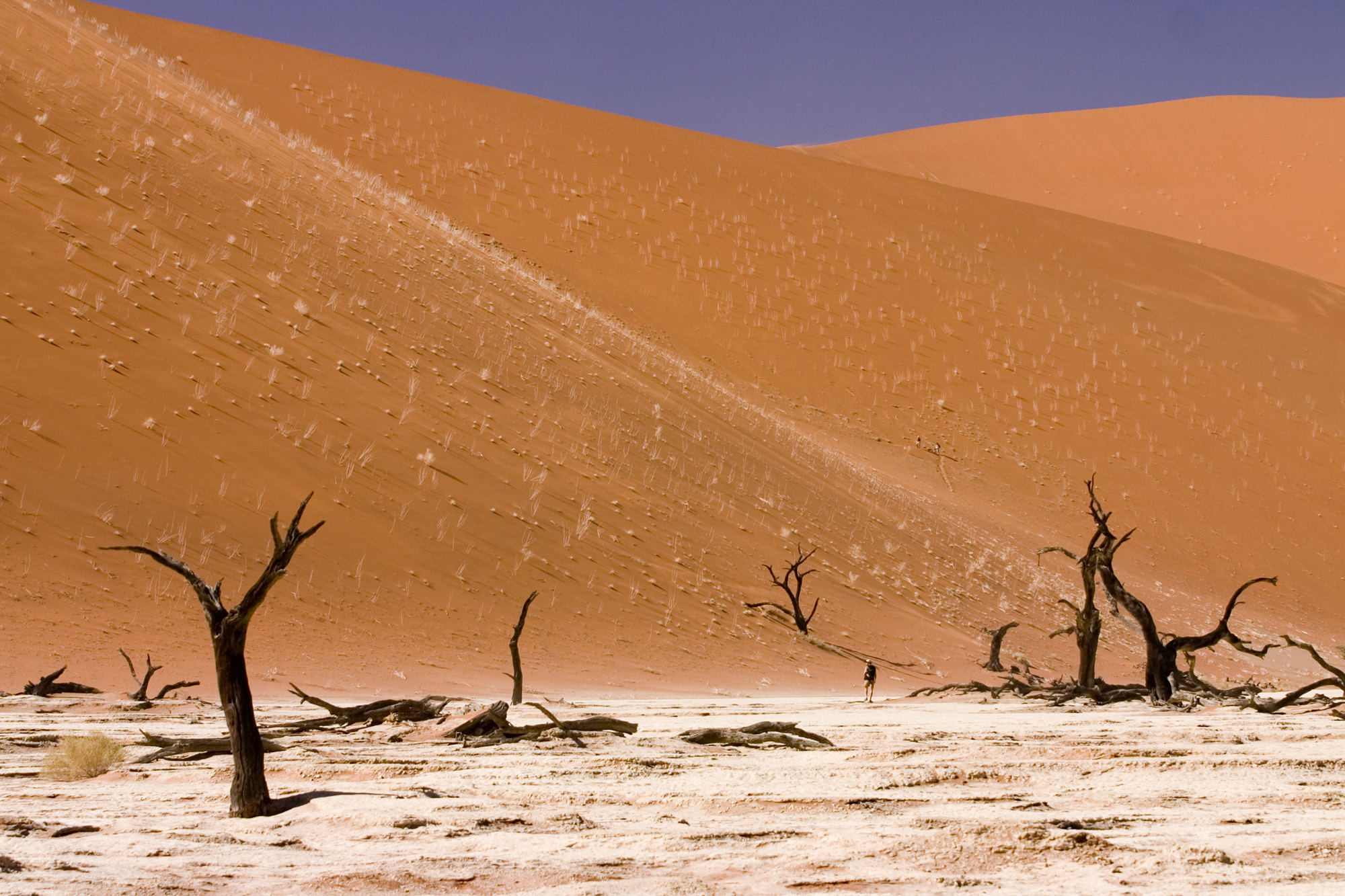 Dead Vlei pan in Sossusvlei region in the Namib-Naukluft National Park, Namib Desert, Namibia.